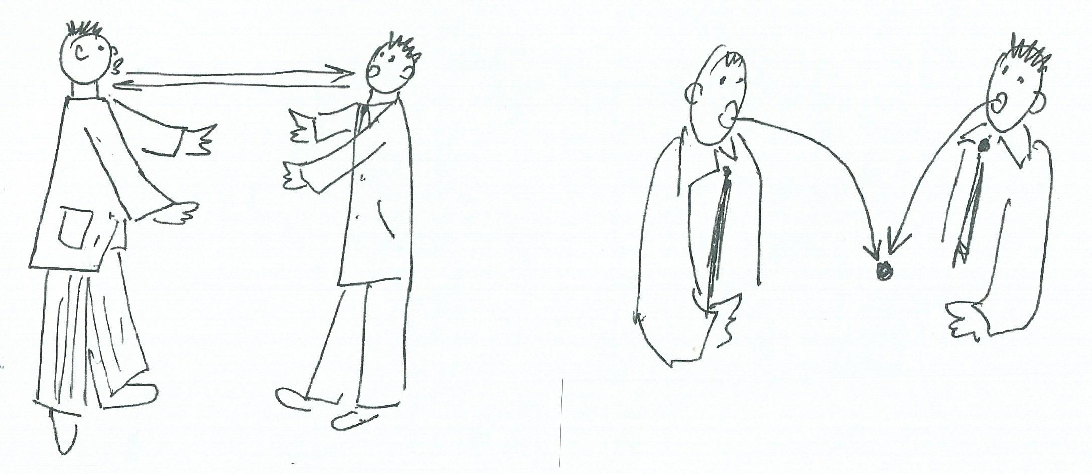 sрoken chains